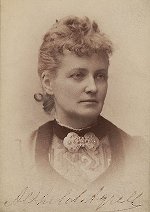 Alfhild Agrell